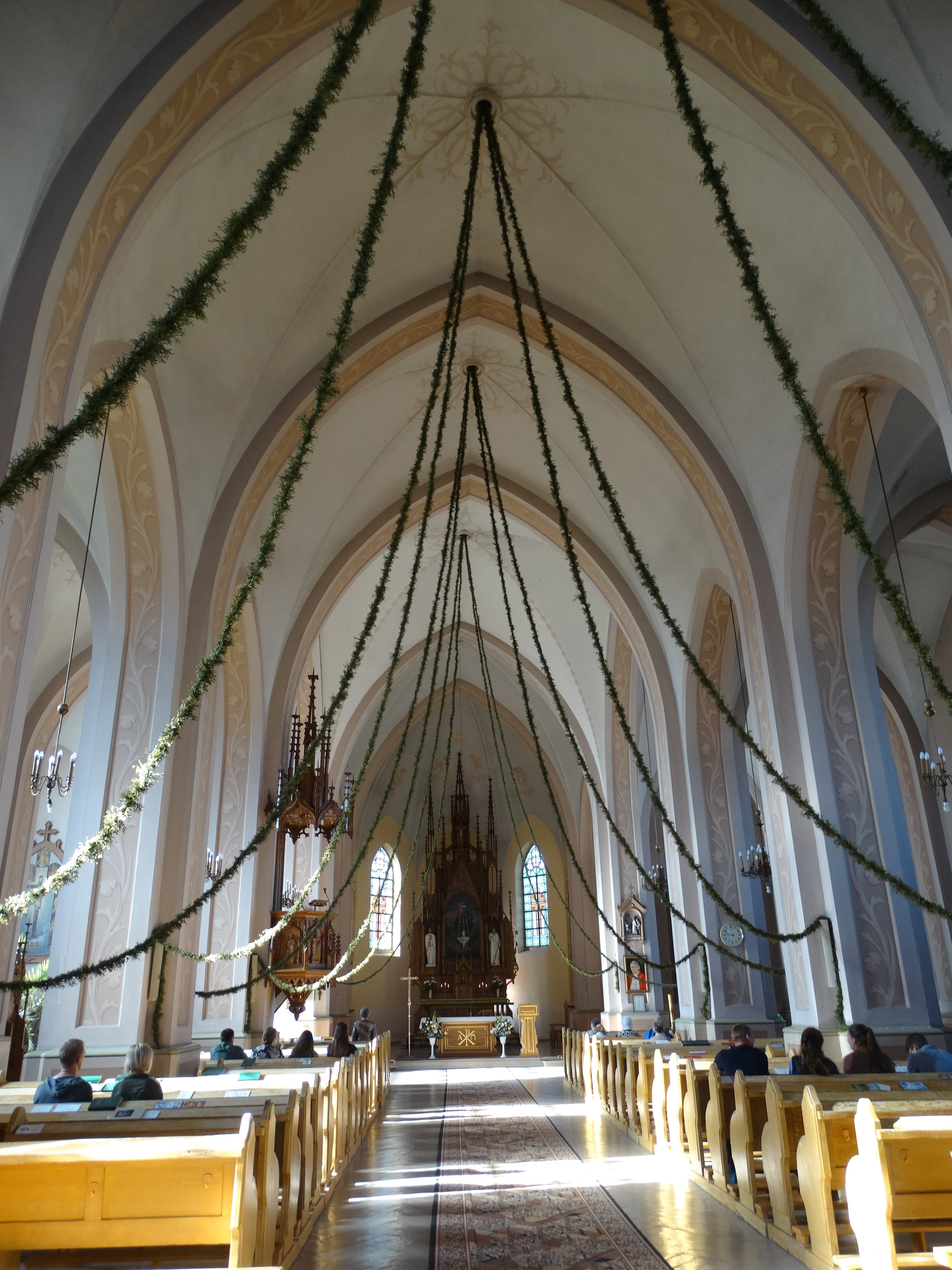 St. James the Apostle Church in Žiežmariai, Lithuania